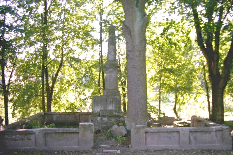 Monument towards killed worships in And world war. Lubieszewo/Gryfice (Poland)